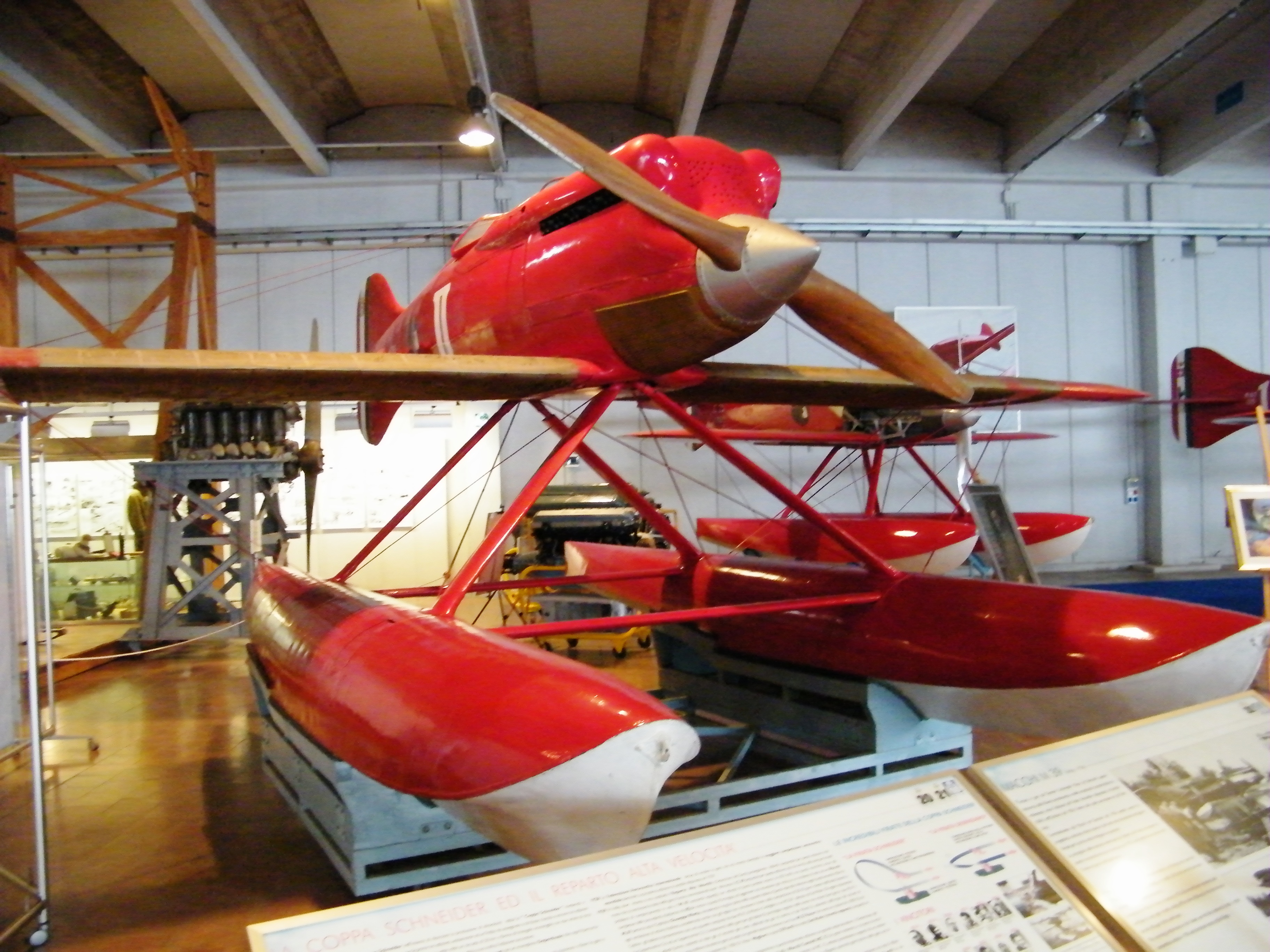 Macchi M.39 at the Italian Air Force Museum, Vigna di Valle in 2012